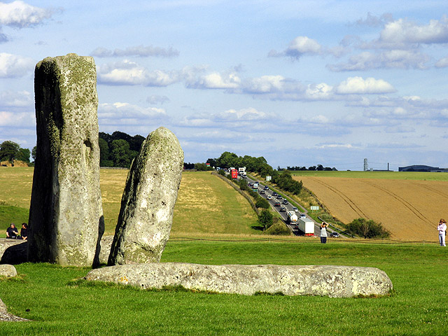 A303(T) Queues at Stonehenge. This view looks more or less south west towards the road.